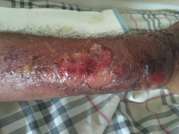 Bacillus anthracis-bacteria, that causes skin infection, which is called cutaneous anthrax.